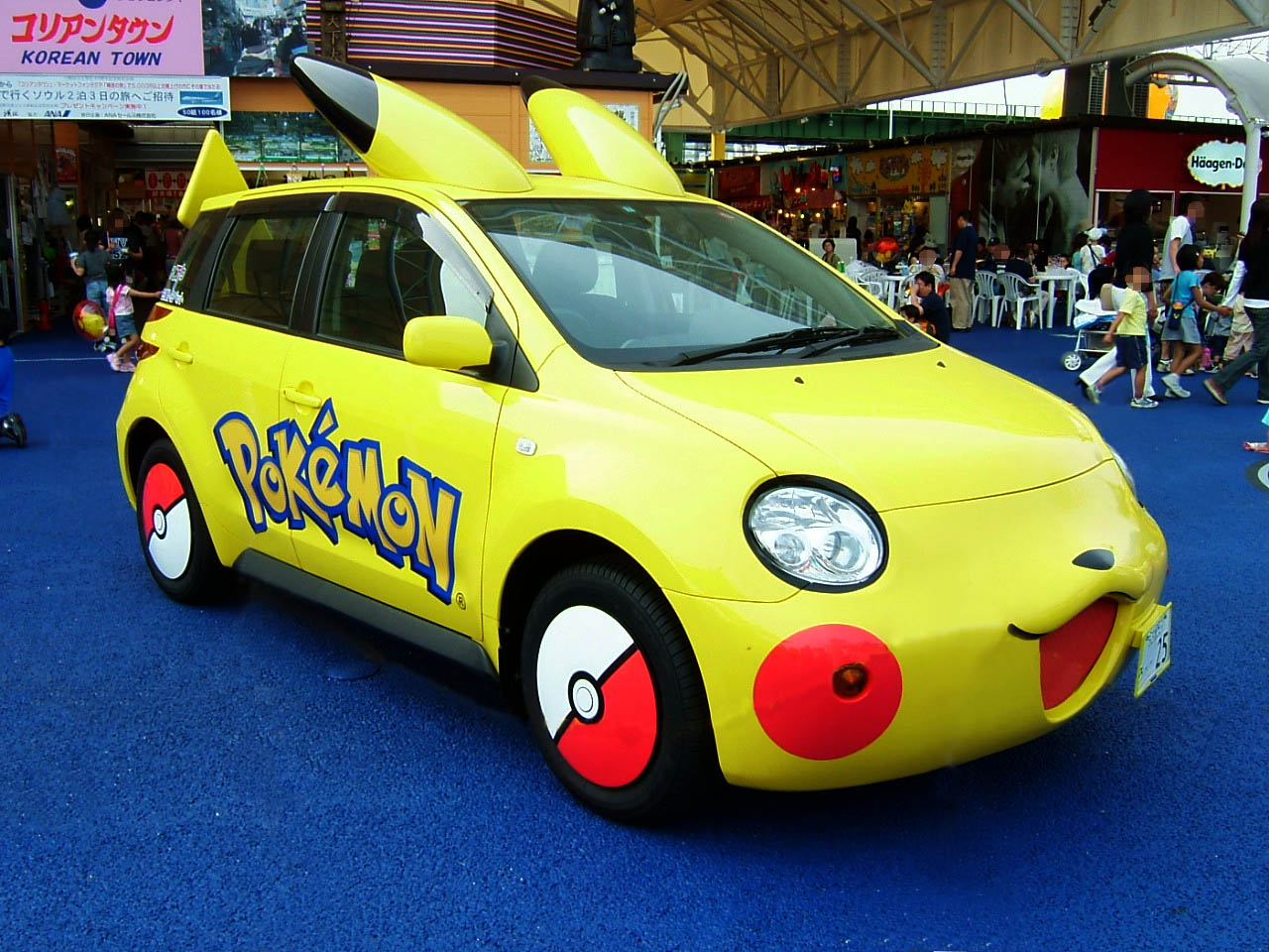 TOYOTA ist Pikachu Car, at the Expo 2005 Sasashima Satellite Area 「De･La･Fantasia」, Nagoya, Japan